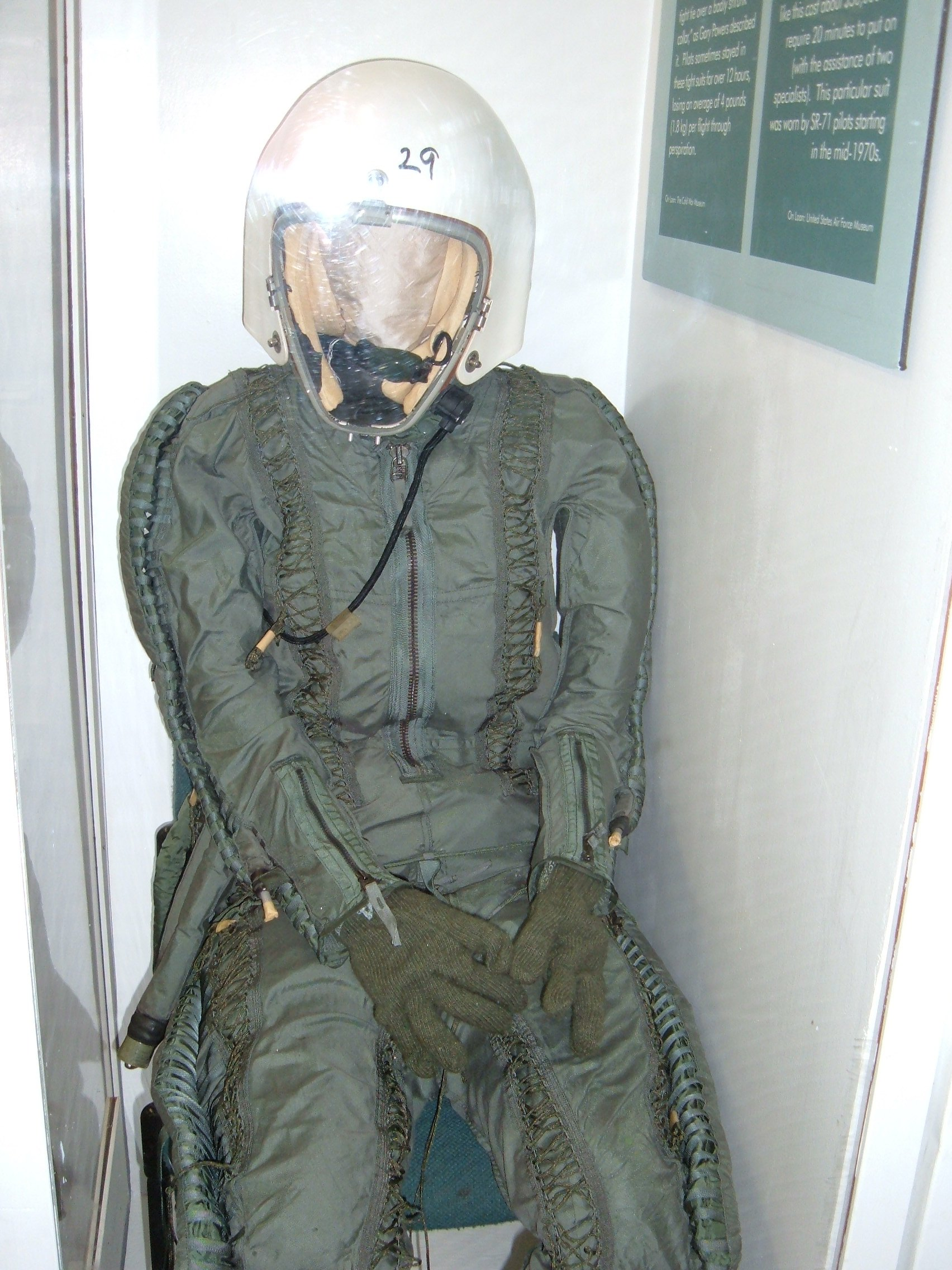 Modified MC-3 pressure suit and MA-1 helmet, ca. 1958, used by U-2 pilot Francis Gary Powers. Displayed at the Pacific Coast Air Museum in Santa Rosa, California in Janaury 2008. On loan from The Cold War Museum as part of the mobile U-2 Incident exhibit.